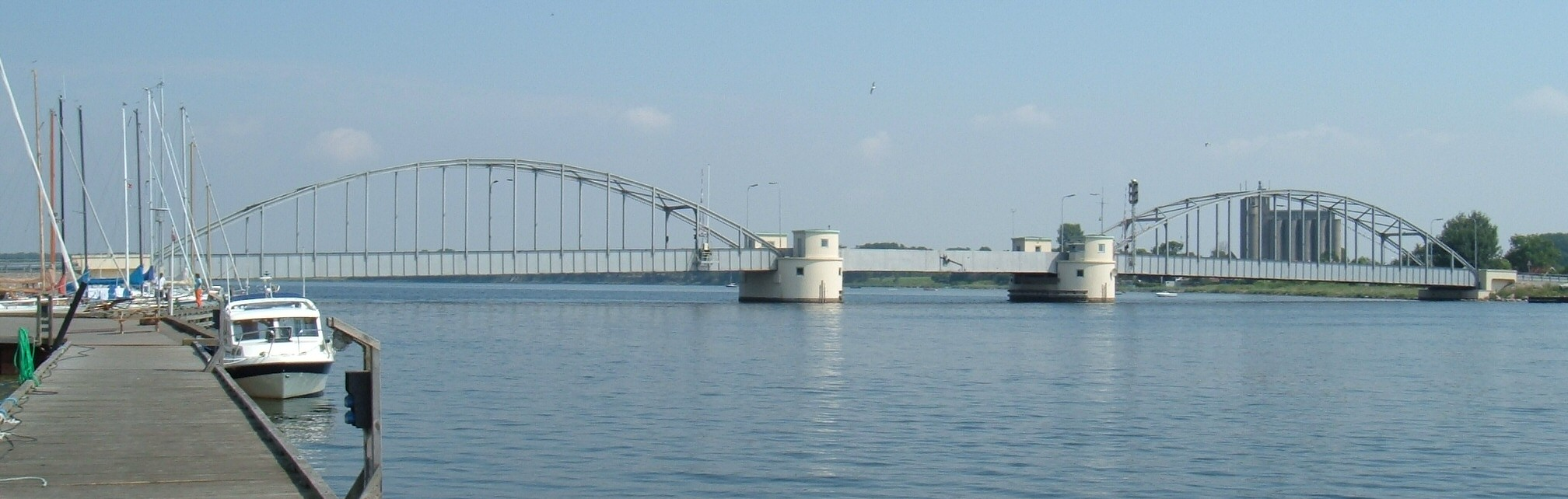 Guldborgsund bridge across the northern end of the Guldborg Sund between the islands of Lolland and Falster in Denmark. View looking north from Guldborg harbour on Lolland. Taken by contributor, July 2006